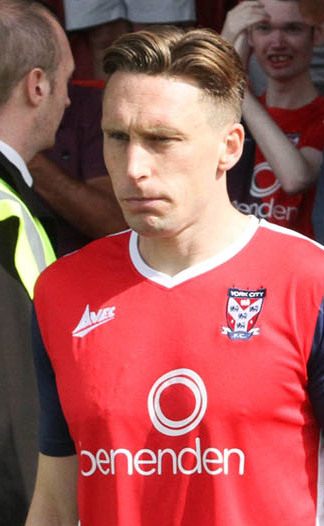 Danny Parslow before York City's match against F.C. United of Manchester at Bootham Crescent, York on 28 August 2017